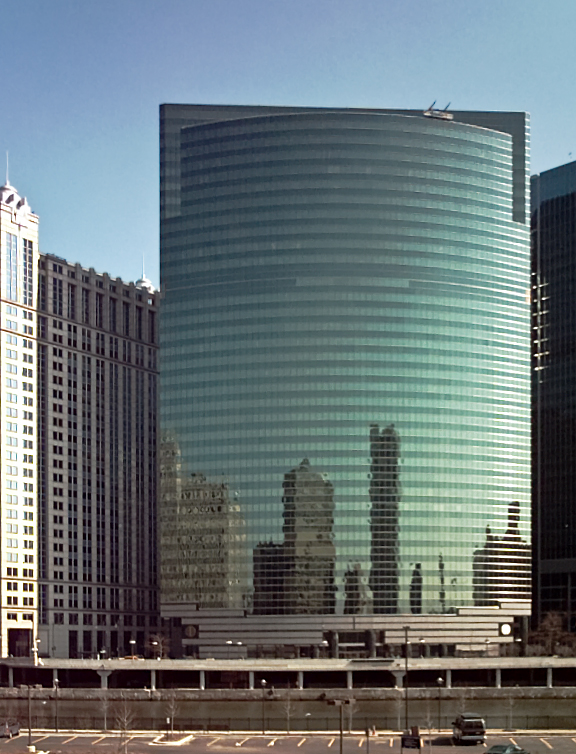 333 Wacker Drive in Chicago, as seen from W Mart Center Drive.